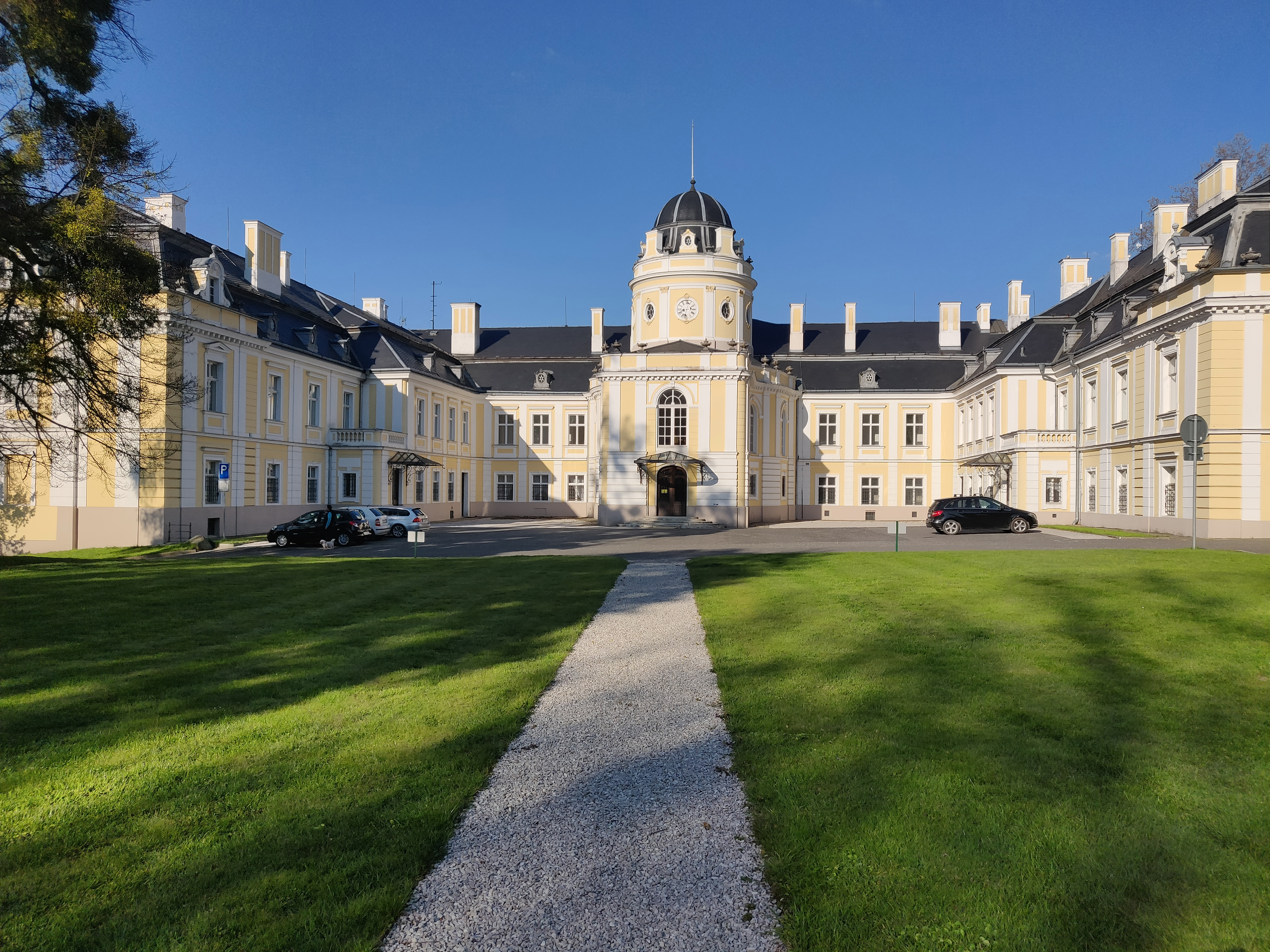 Castle in Šilheřovice